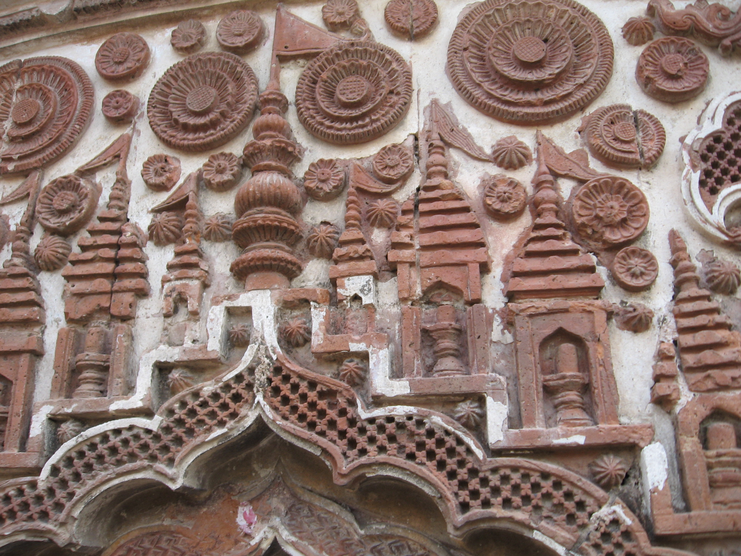 Nanoor terracotta carving.